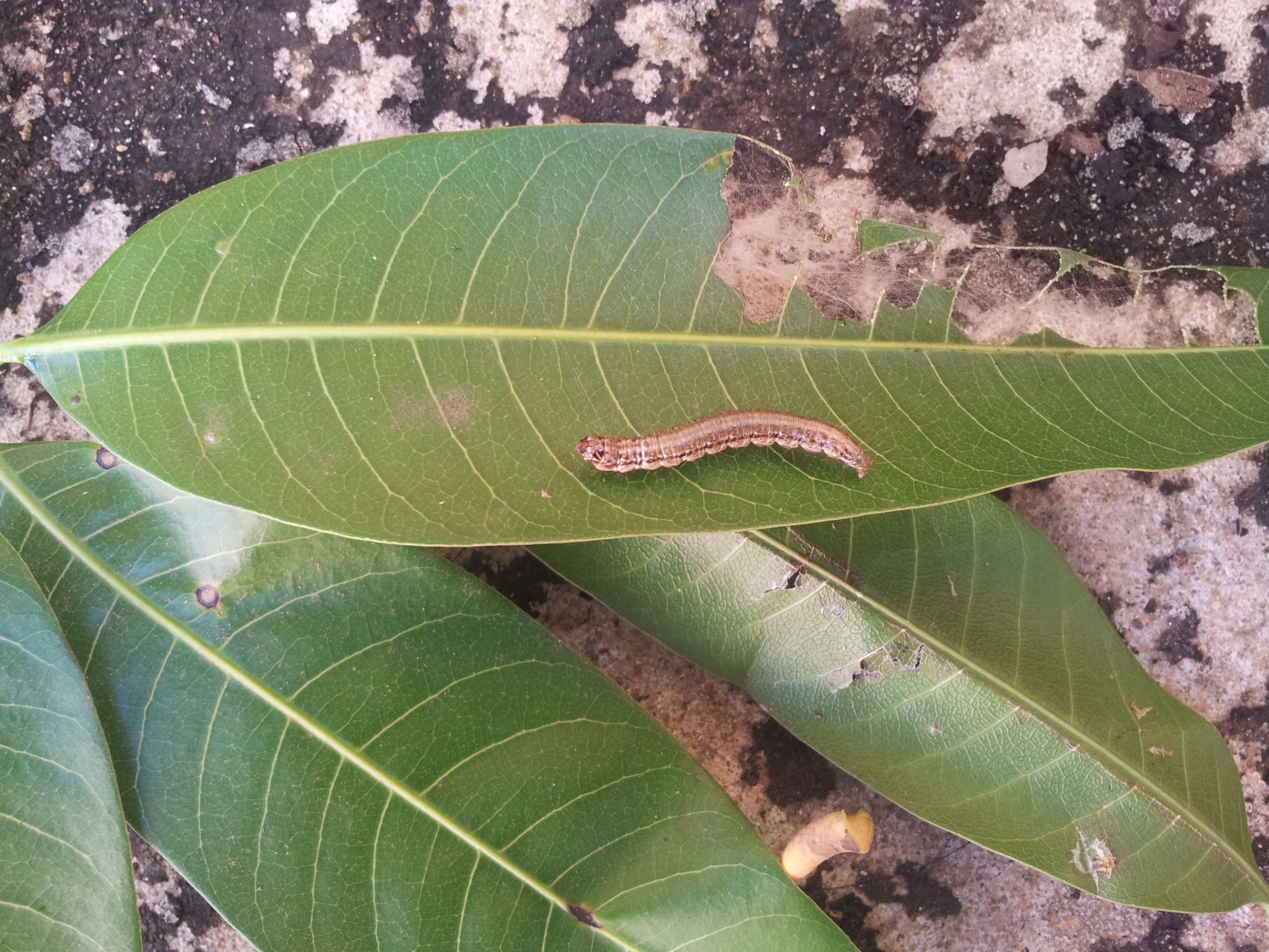 mango leaf webber